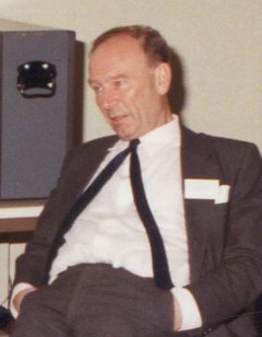 Donald Michie teaching a group of industrial Journeyman students at Turing Institute